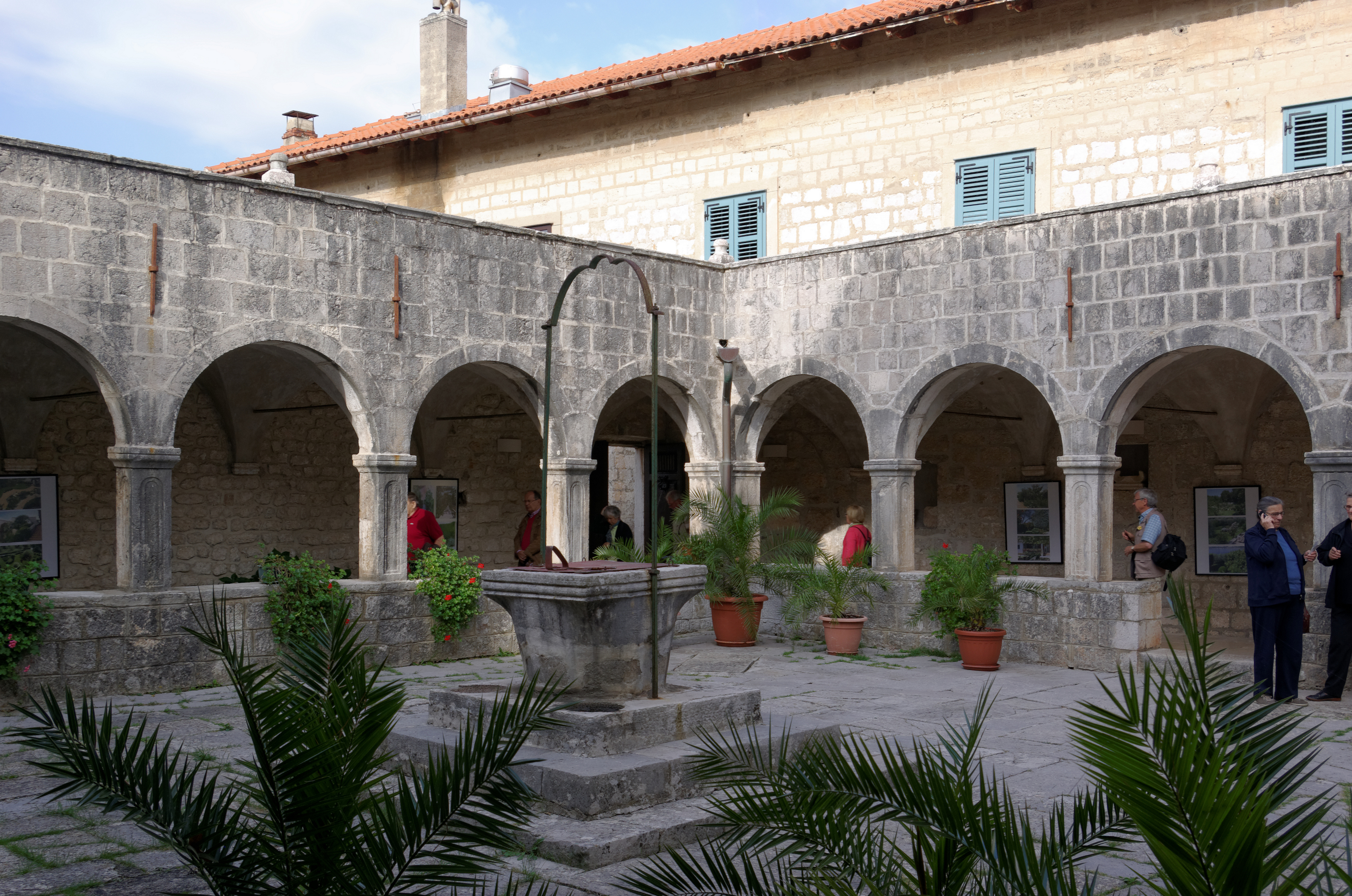 Croatia, Košljun, cloister of the monastry